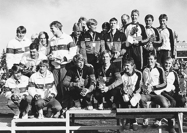 Winners of Jukola 1983